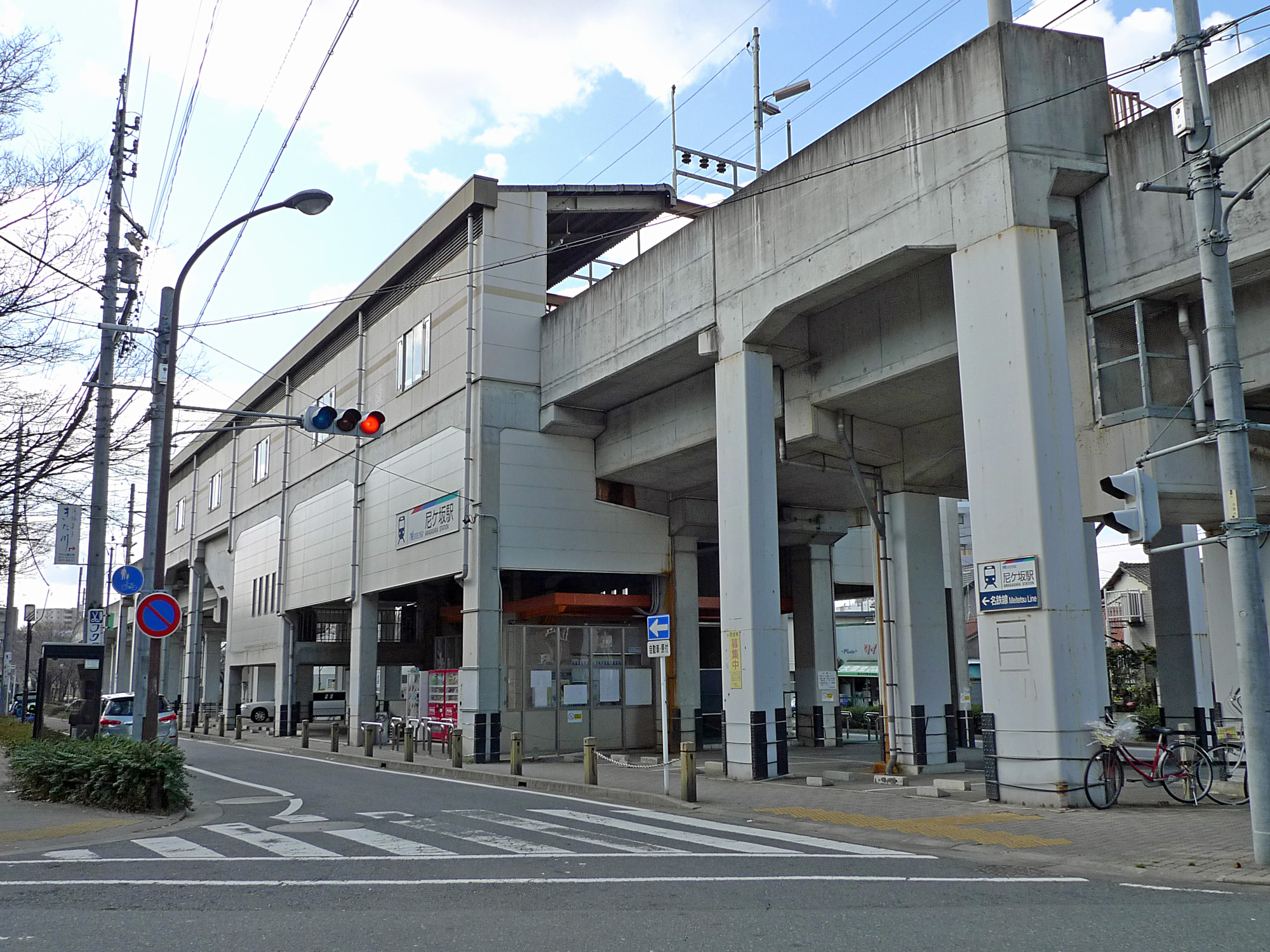 Amagasaka Station,Meitetsu Seto Line.